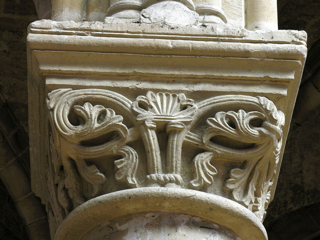 Senlis, cathedral Notre-Dame, capital. Fly to this location (Requires Google Earth)